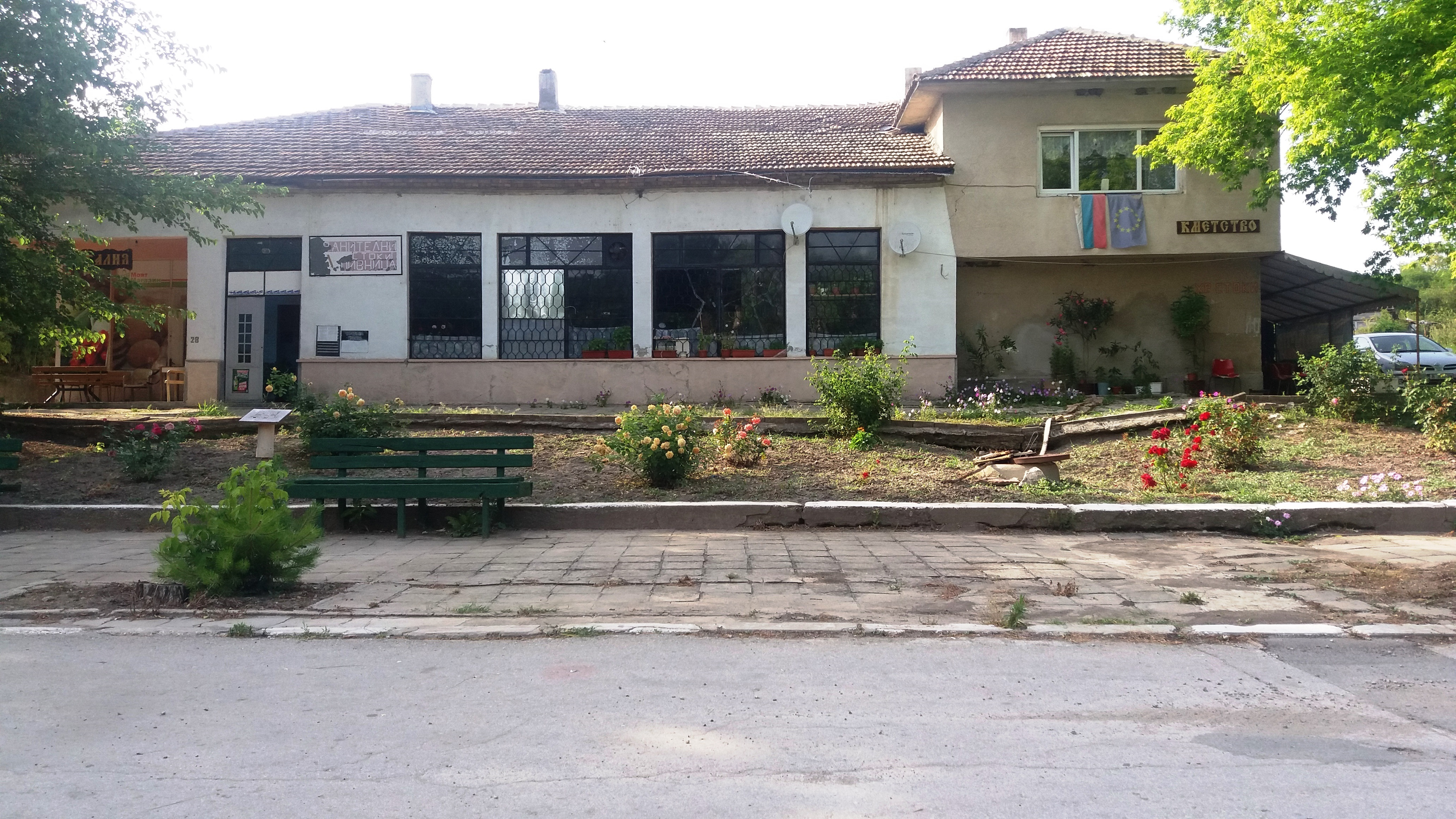 Mayor's office in the village of Shtipsko near Valchi dol, Varna Province